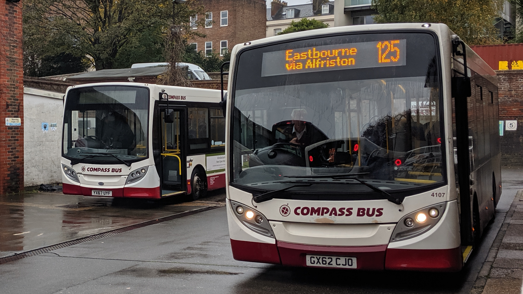 2 Compass Bus ADL Enviro 200 8.9m 4107 - GX62 CJO and 4123 - YX67 UYF at Lewes Bus Station. I went out on a bus ride yesterday and caught this pair of Compass Bus Enviro 200s at Lewes. Previously published